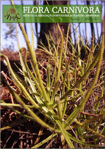 Cover of APPC Magazine (Number 1)